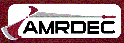 US Army Aviation and Missile Research, Development and Engineering Center logo